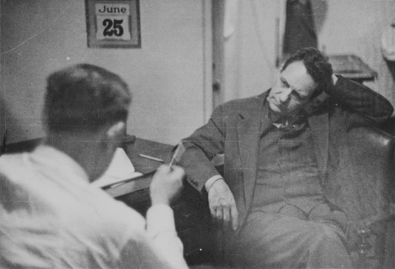 FBI agent talks with Captain Fritz Joubert Duquesne, German spy, who was unaware that FBI agents were taping the whole episode behind a two-way mirror.